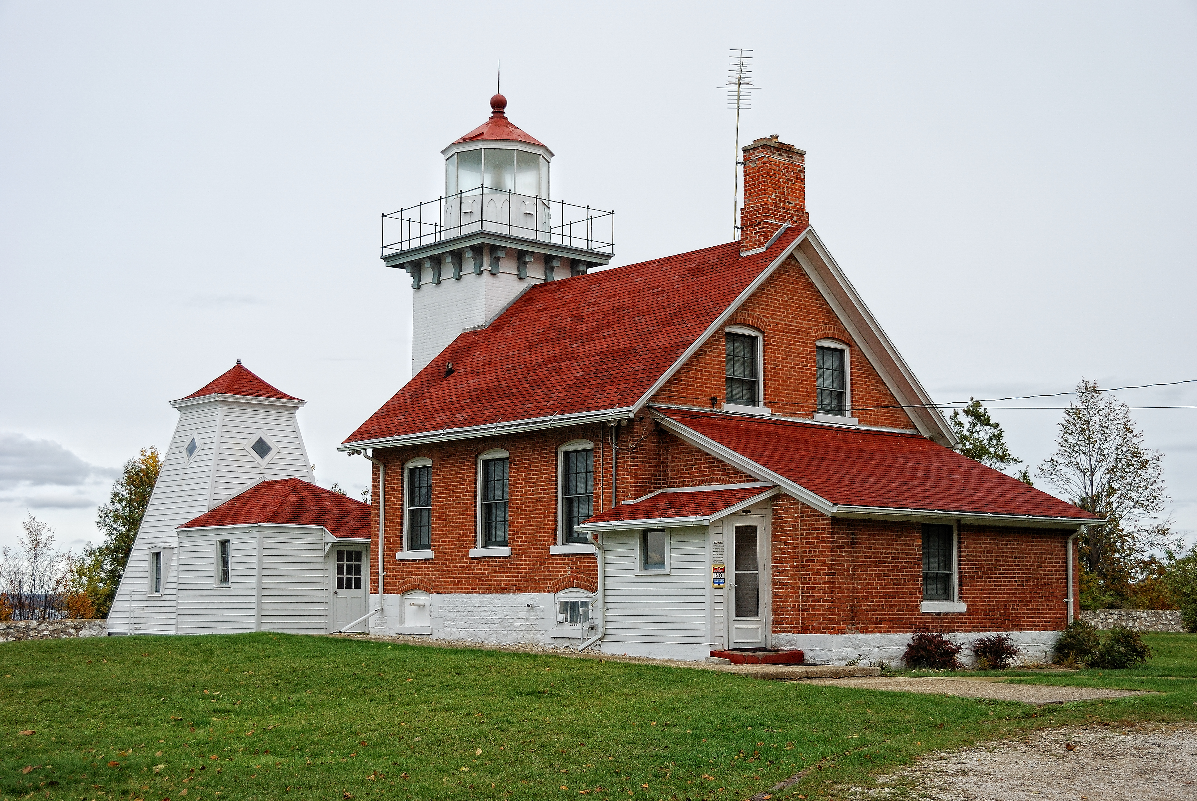 Sherwood Point Light in Door County, Wisconsin, USA